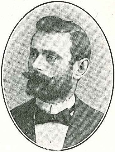 Carl Hennerberg (1871-1932), Swedish organist, librarian and musicologist.